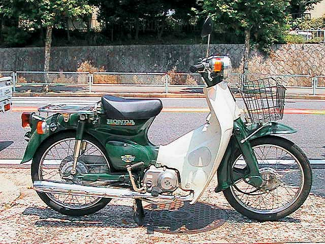 Greencub